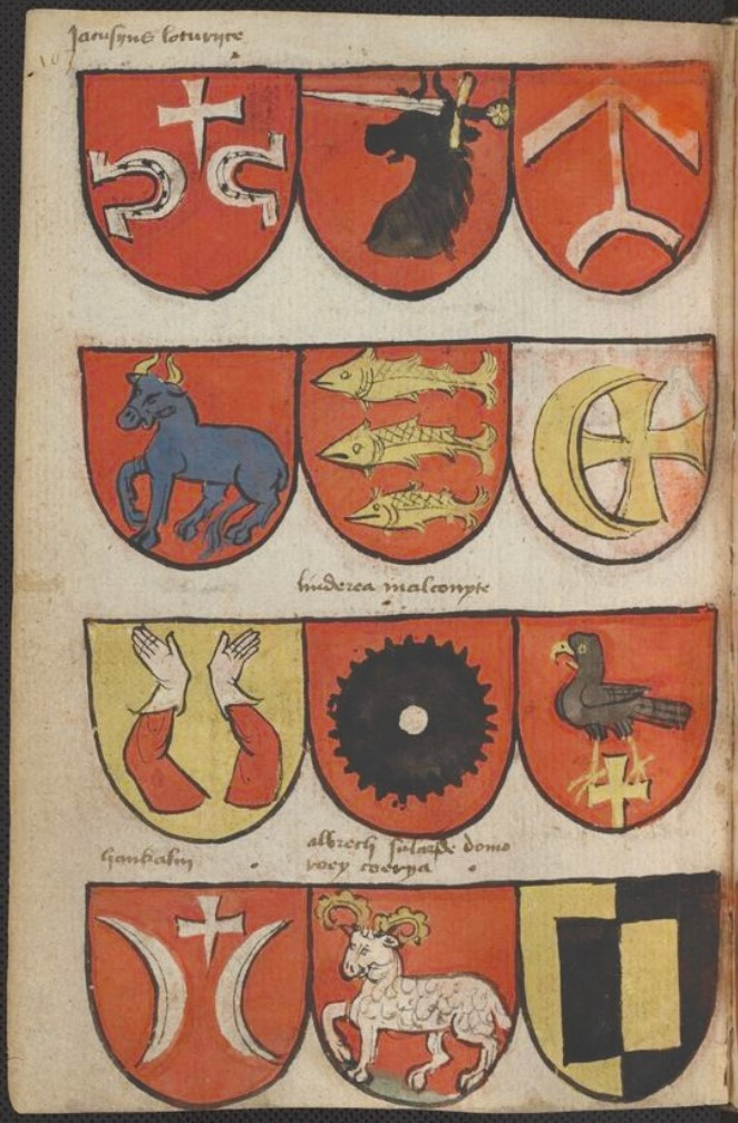 Folio 106 from Armorial Lyncenich